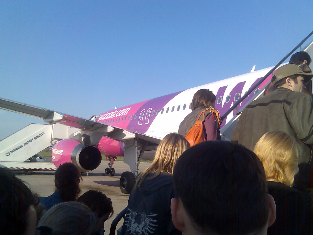 Airbus A320-200 boarding at Aurel Vlaicu International Airport